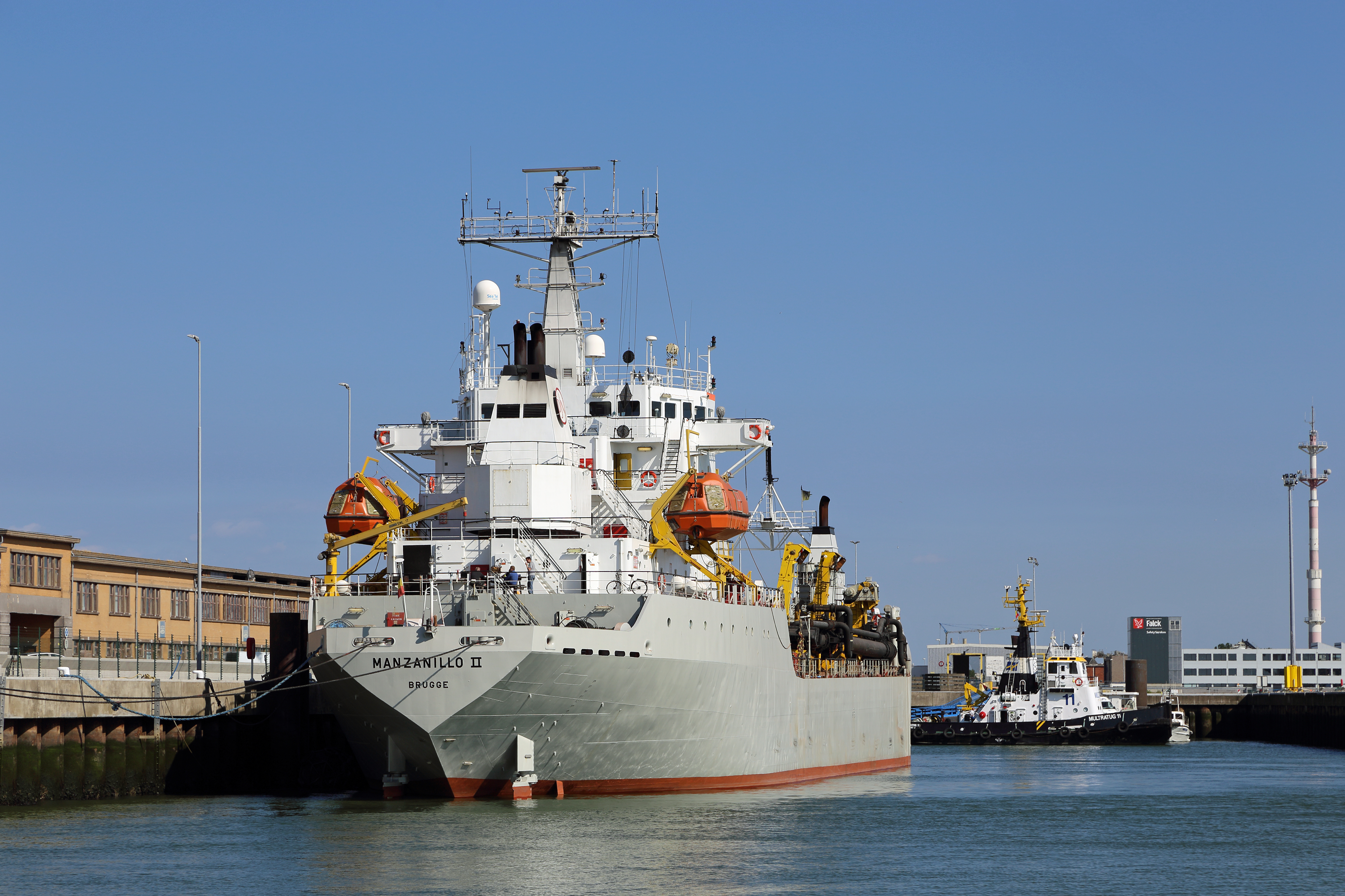 Trailing suction hopper dredger Manzanillo II in the port of Ostend (Belgium)